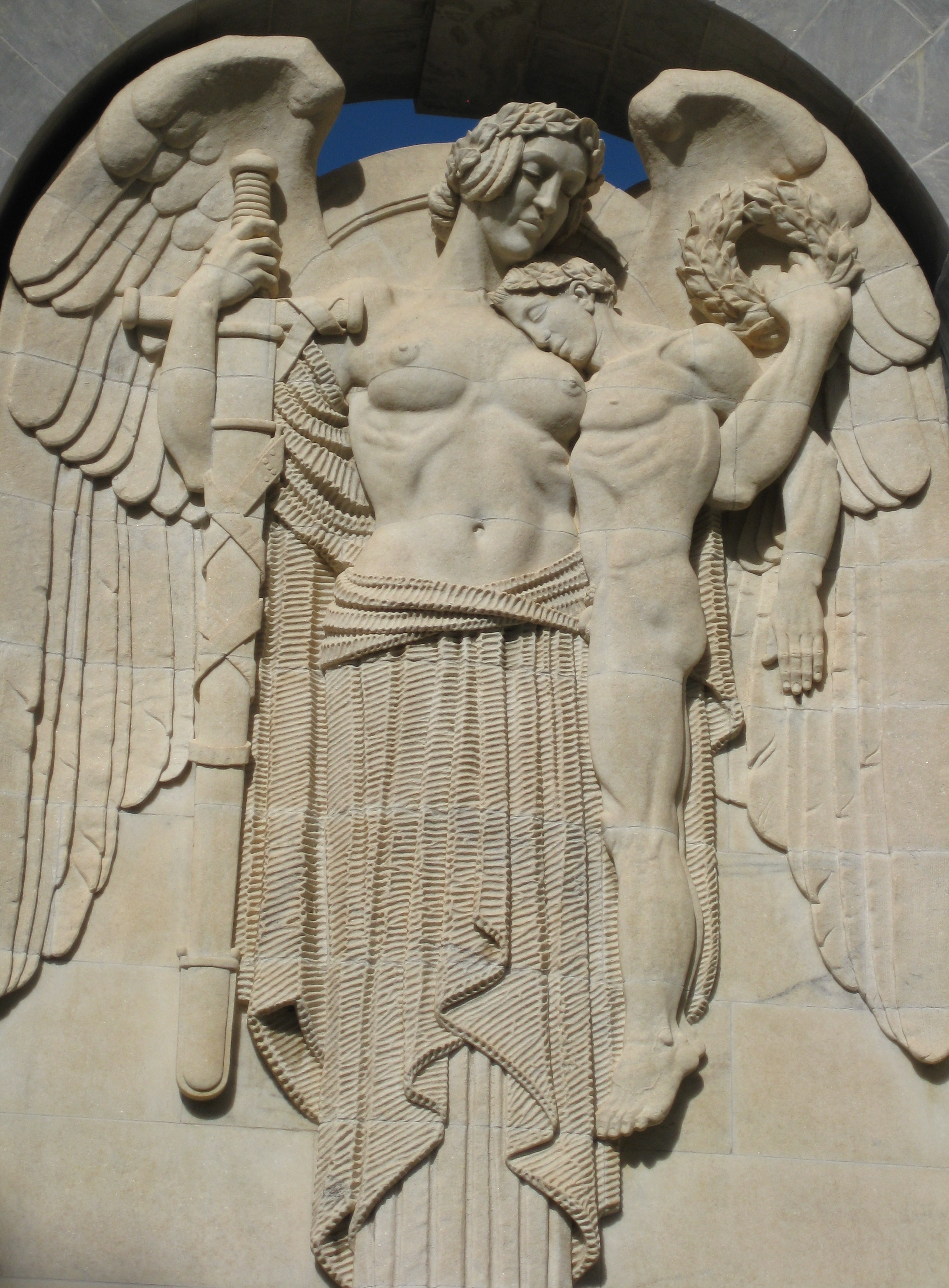 The Spirit of Compassion by Raynor Hoff (1894–1937), carved from marble on the South Australian National War Memorial, unveiled in 1931.